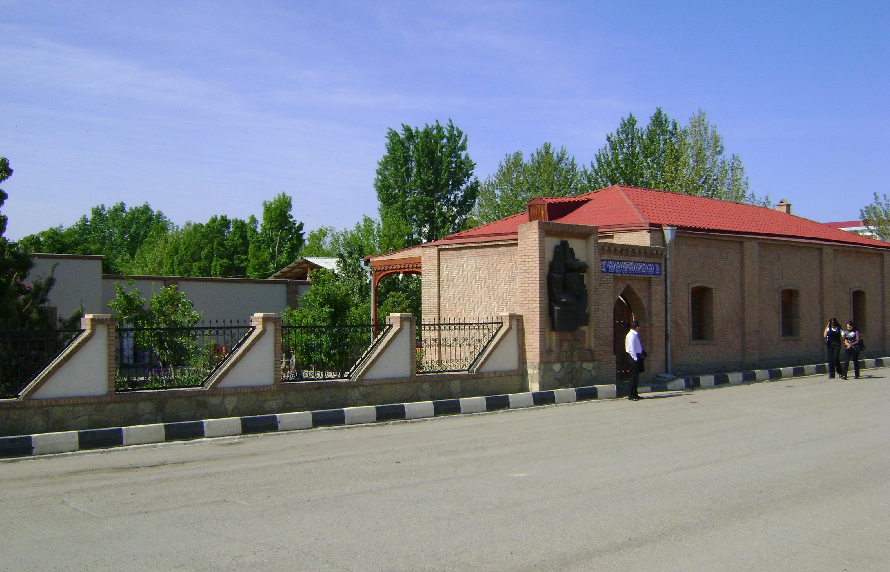 Home-Museum of famous Azerbaijani poet Huseyn Javid at Nakhchivan City (Nakhchivan Region of Azerbaijan Republic)